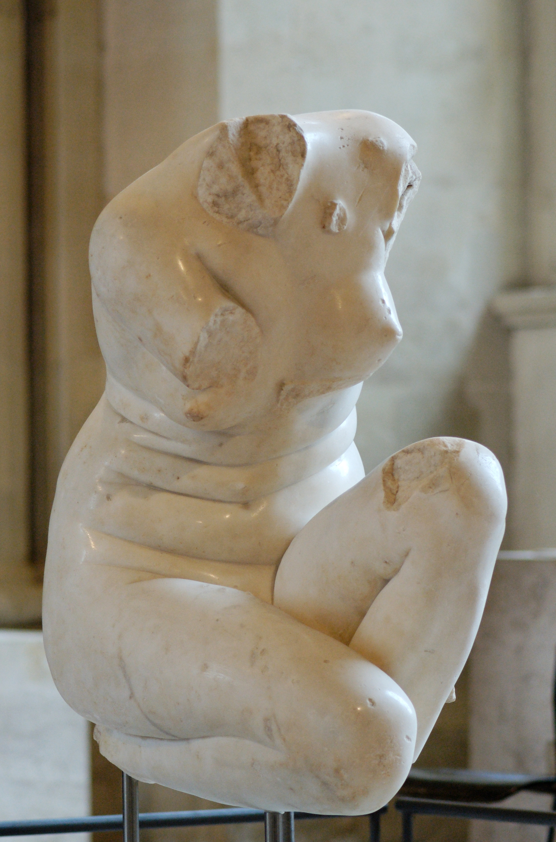 Crouching Aphrodite. Marble, Roman copy of the 1st-2nd century CE after a Hellenistic original of the 3rd century BC, loosely derived from the Cnidian Aphrodite by Praxiteles. From Sainte-Colombe, Isère, France.